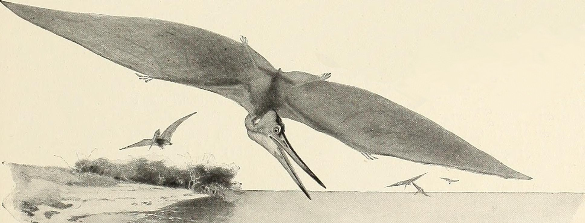 Ornithostoma